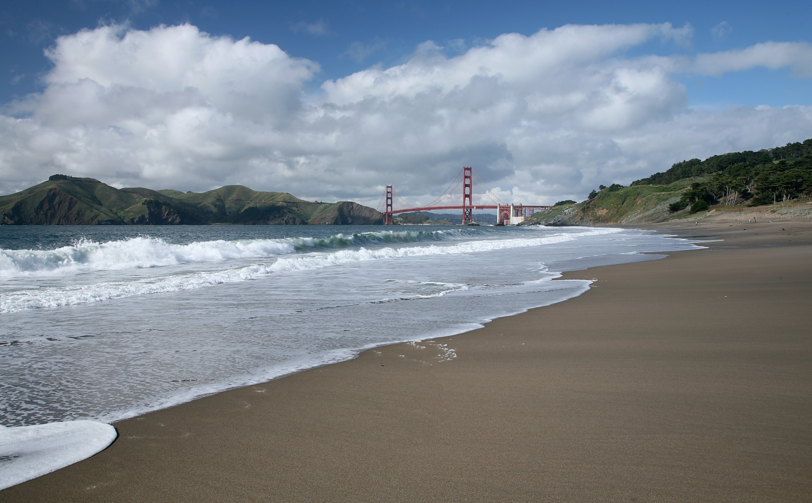 Baker Beach, San Francisco